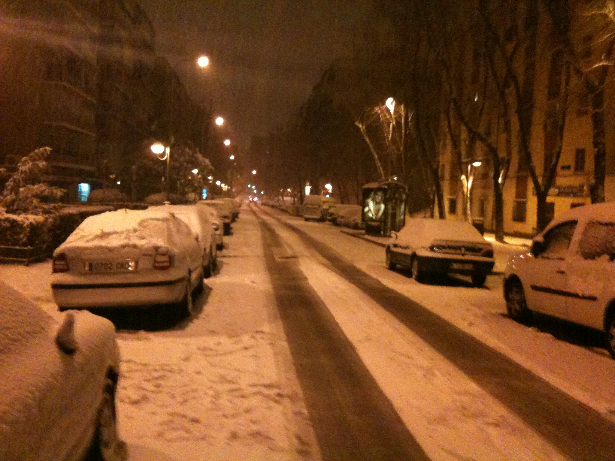 c/ Manojo de Rosas snowed 01/10/2010